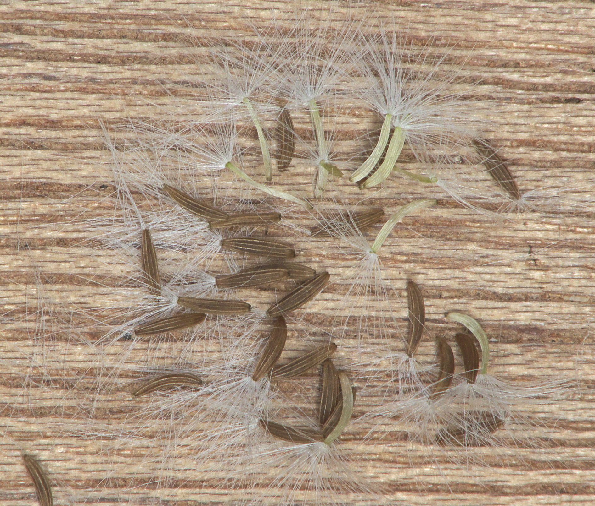 Crepis capillaris achenes